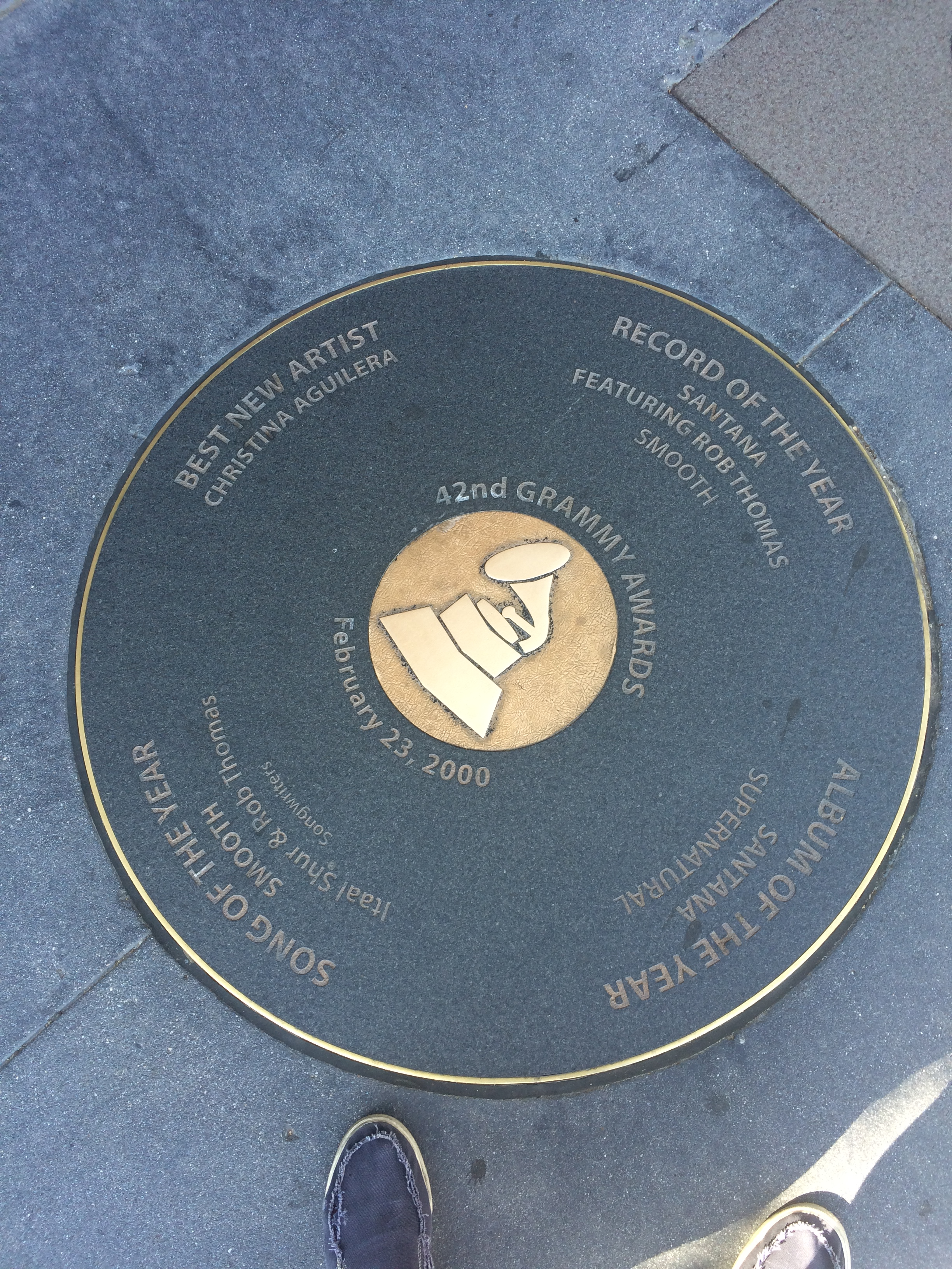 A circle plateau of the 2000 Grammy Awards most noble categories located in downtown Los Angeles